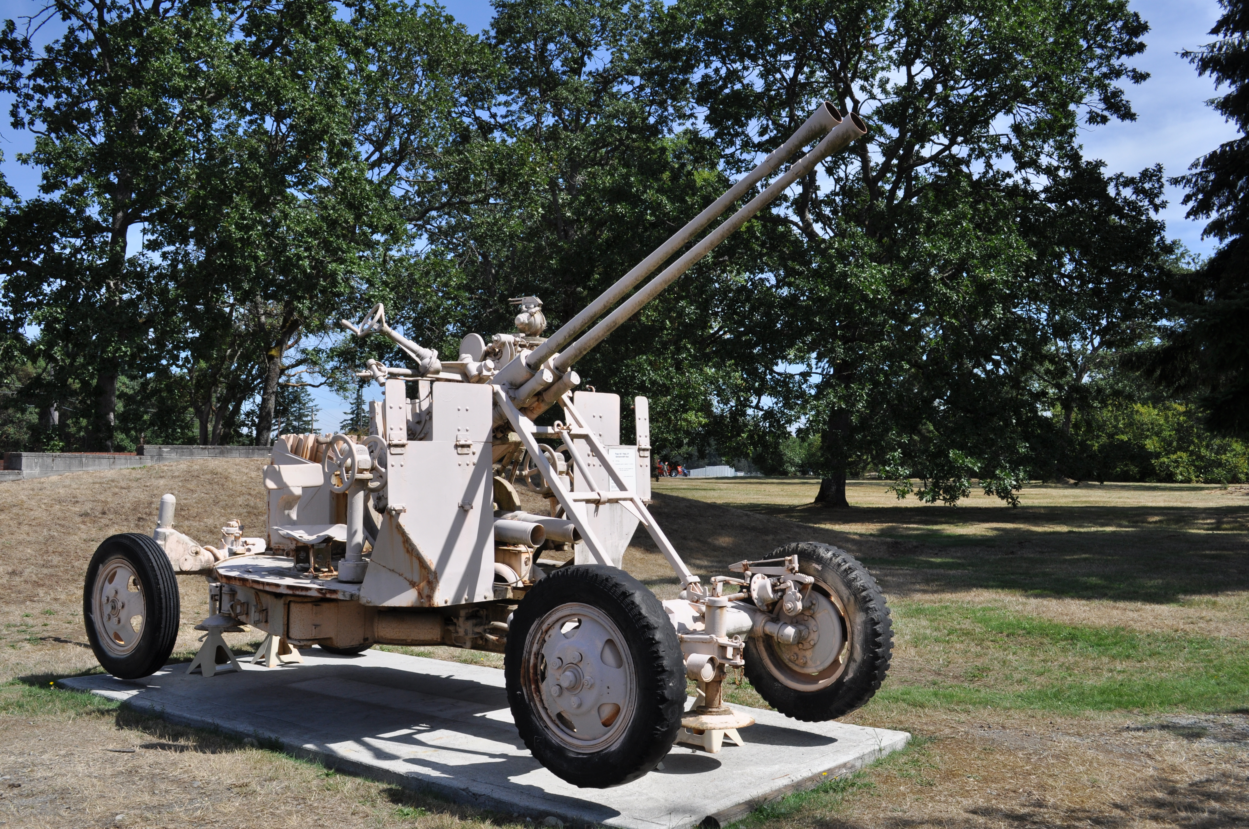 Chinese Type 65 Twin 37 antiaircraft gun, Fort Lewis Military Museum, Fort Lewis, Washington, USA.